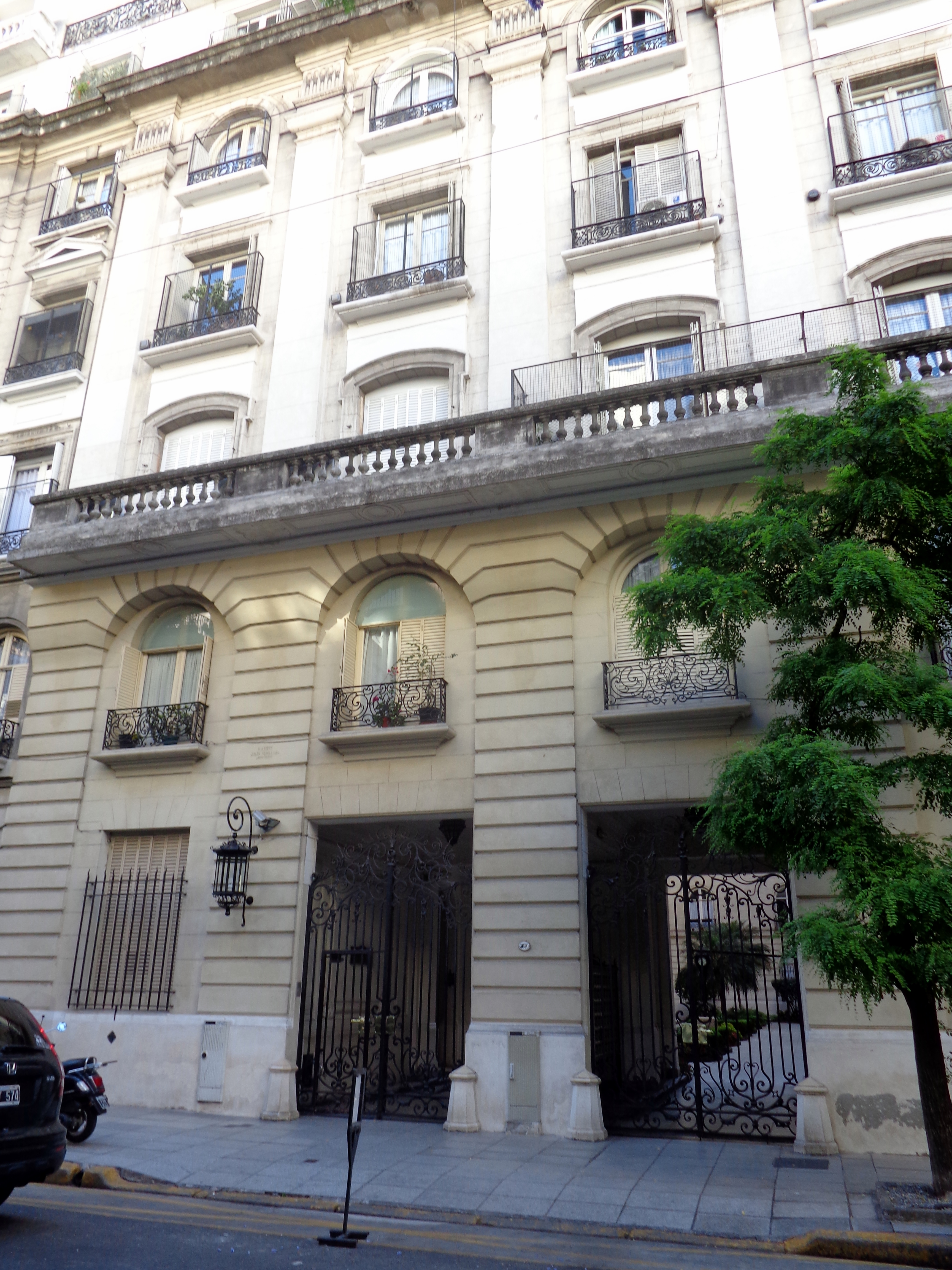 It was built in 1929, with main entrance at 3050 Ugarteche street of Palermo in Buenos Aires, Argentina. Designed by architects Henri Azière and Julio Senillosa.